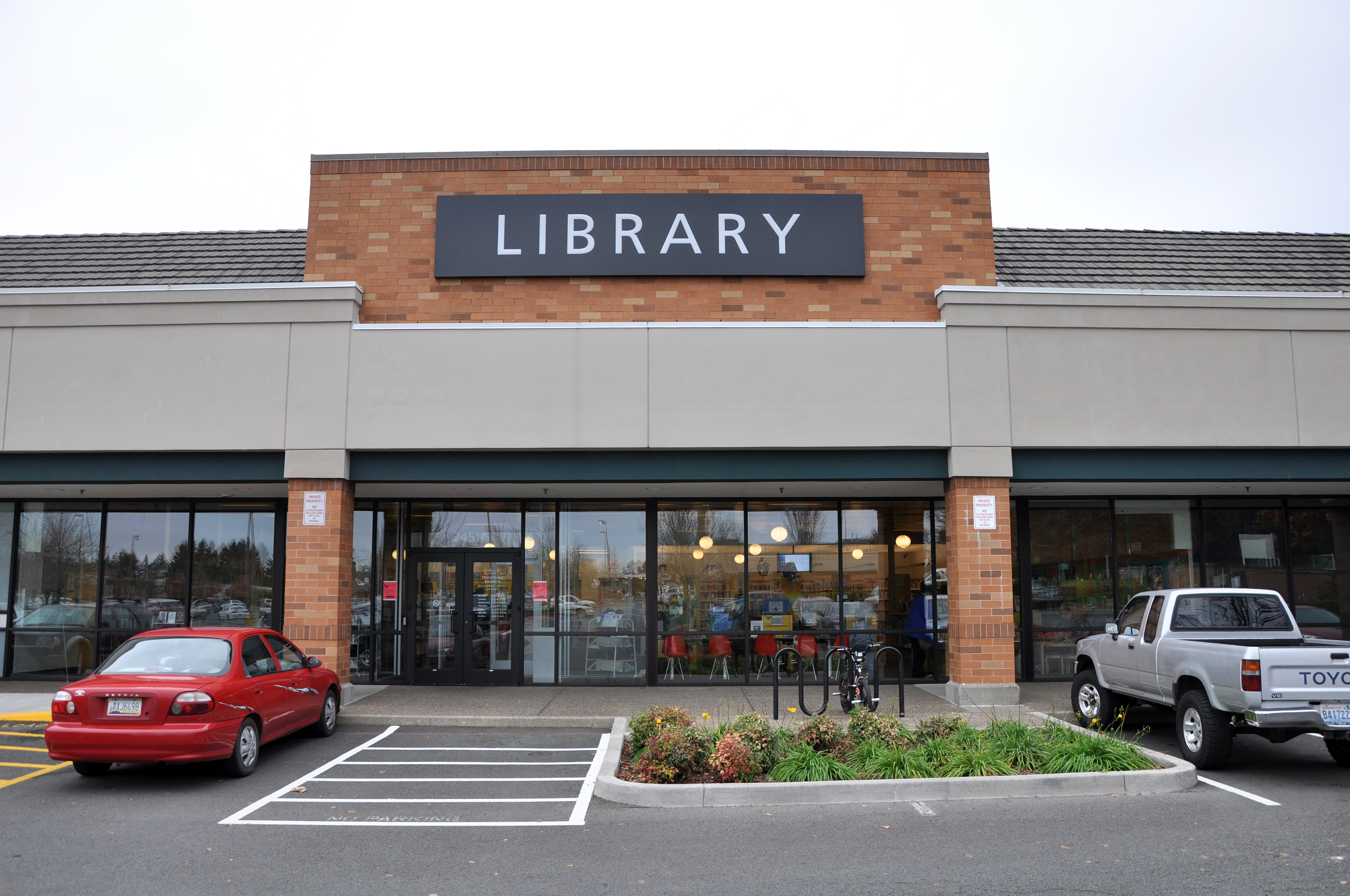 Troutdale Library, a branch of the Multnomah County Library in Portland in the U.S. state of Oregon